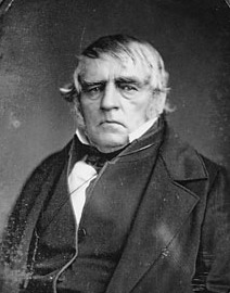 Peter Skene Ogden, late in life. Taken sometime before his death in 1854